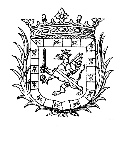 Coat of arms for the Marquis of Lista by heraldic artist Anders Thiset.